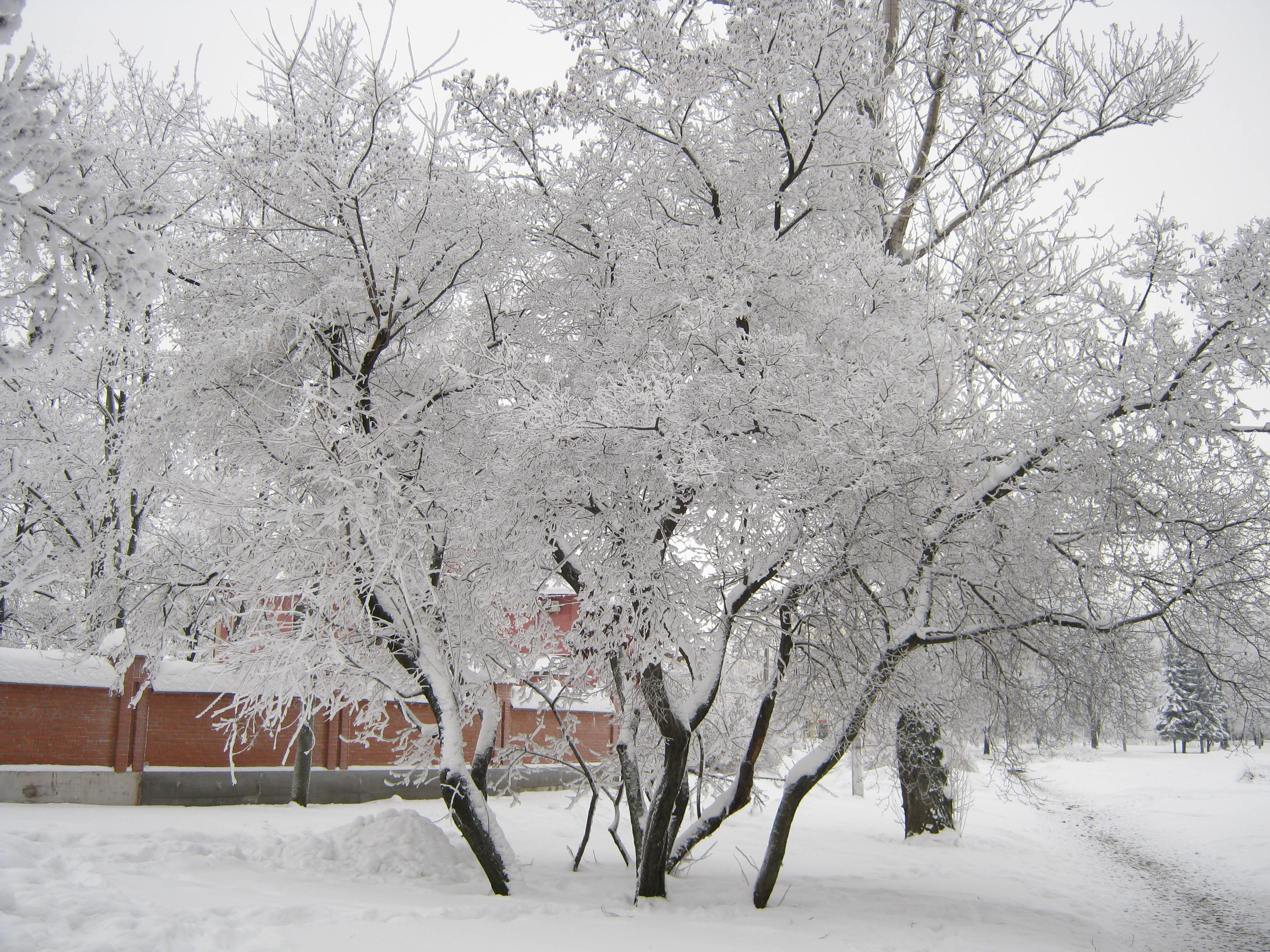 Kolpino (Russia)